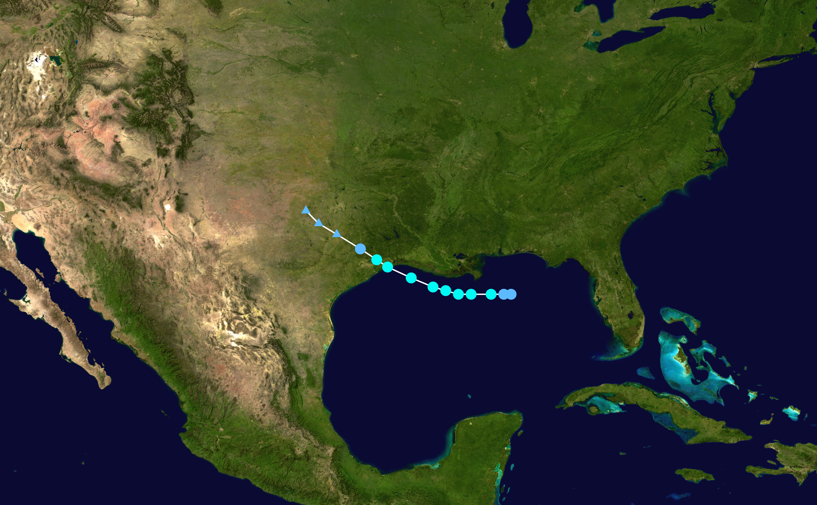 Track map of Tropical Storm Edouard of the 2008 Atlantic hurricane season. The points show the location of the storm at 6-hour intervals. The colour represents the storm's maximum sustained wind speeds as classified in the Saffir–Simpson scale (see below), and the shape of the data points represent the nature of the storm, according to the legend below. Saffir–Simpson scale Tropical depression≤38 mph≤62 km/h Category 3111–129 mph178–208 km/h Tropical storm39–73 mph63–118 km/h Category 4130–156 mph209–251 km/h Category 174–95 mph119–153 km/h Category 5≥157 mph≥252 km/h Category 296–110 mph154–177 km/h Unknown Storm type Tropical cyclone Subtropical cyclone Extratropical cyclone / Remnant low / Tropical disturbance / Monsoon depression